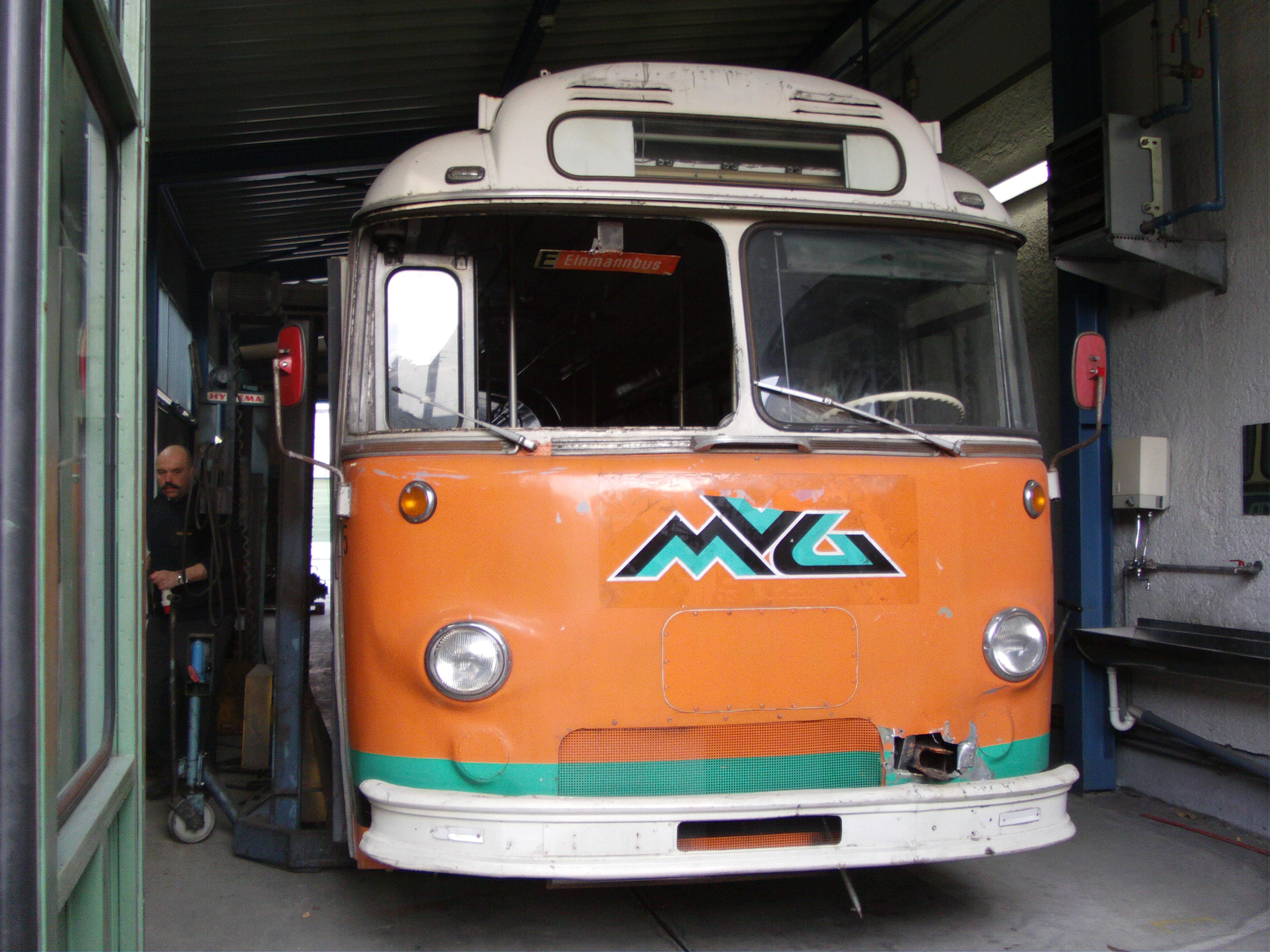 Ex-Mürztal (Kapfenberg, Austria) trolleybus 35, a 1961 Henschel HS 160 OSL, was originally Bielefeld 518 and later Aachen 28, and was acquired by the Mürztal system in 1974. It is pictured in Salzburg, undergoing refurbishment by the group Pro Obus Salzburg.